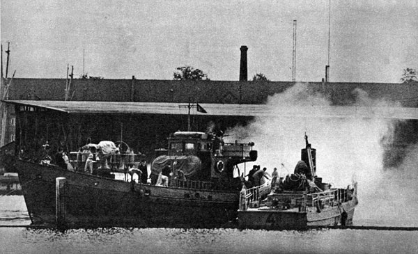 Minesweeper MS 4 burnt on 29 August 1943 (original photo in The Danish National Museum of Military History)